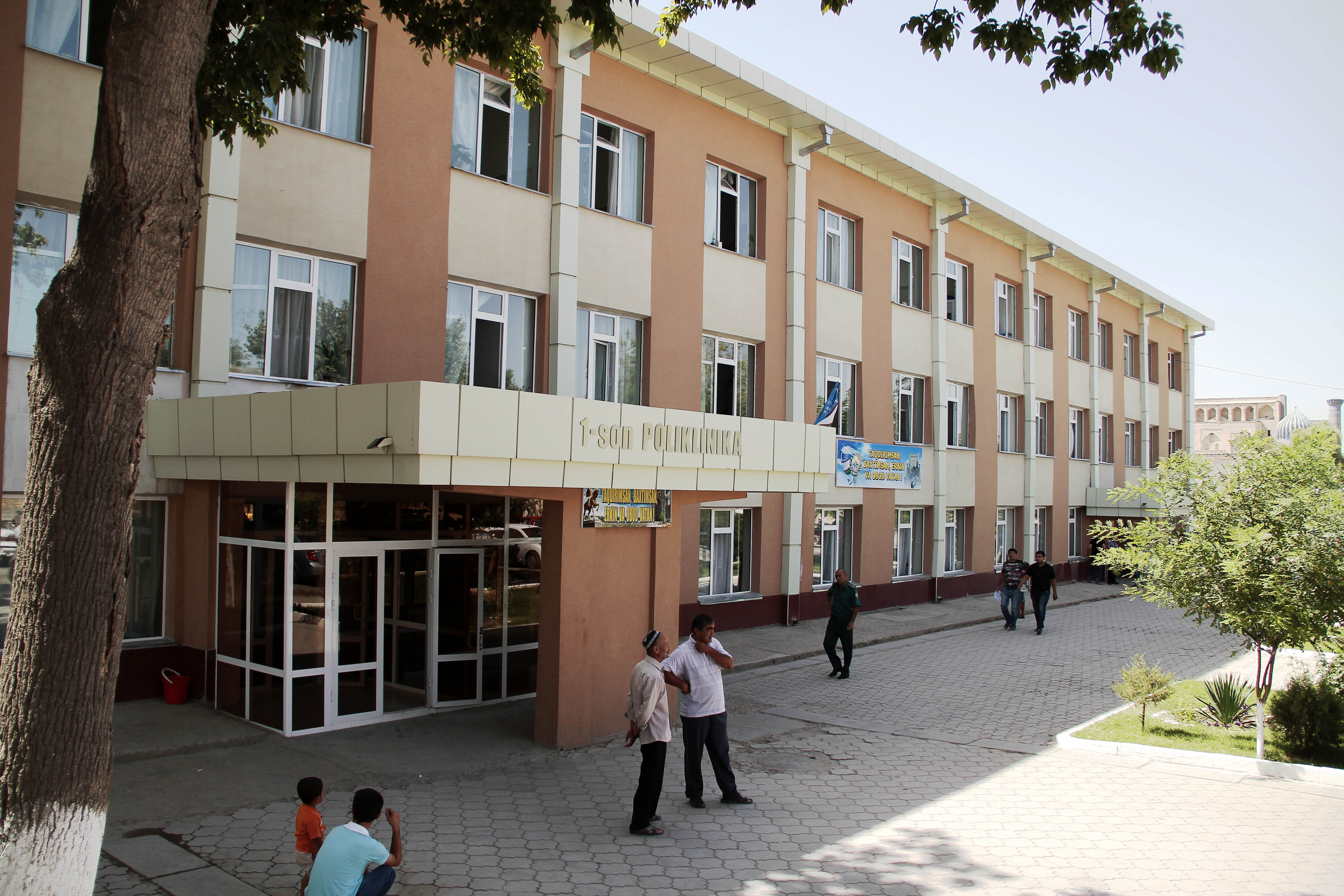 1st policlinic in Samarkand